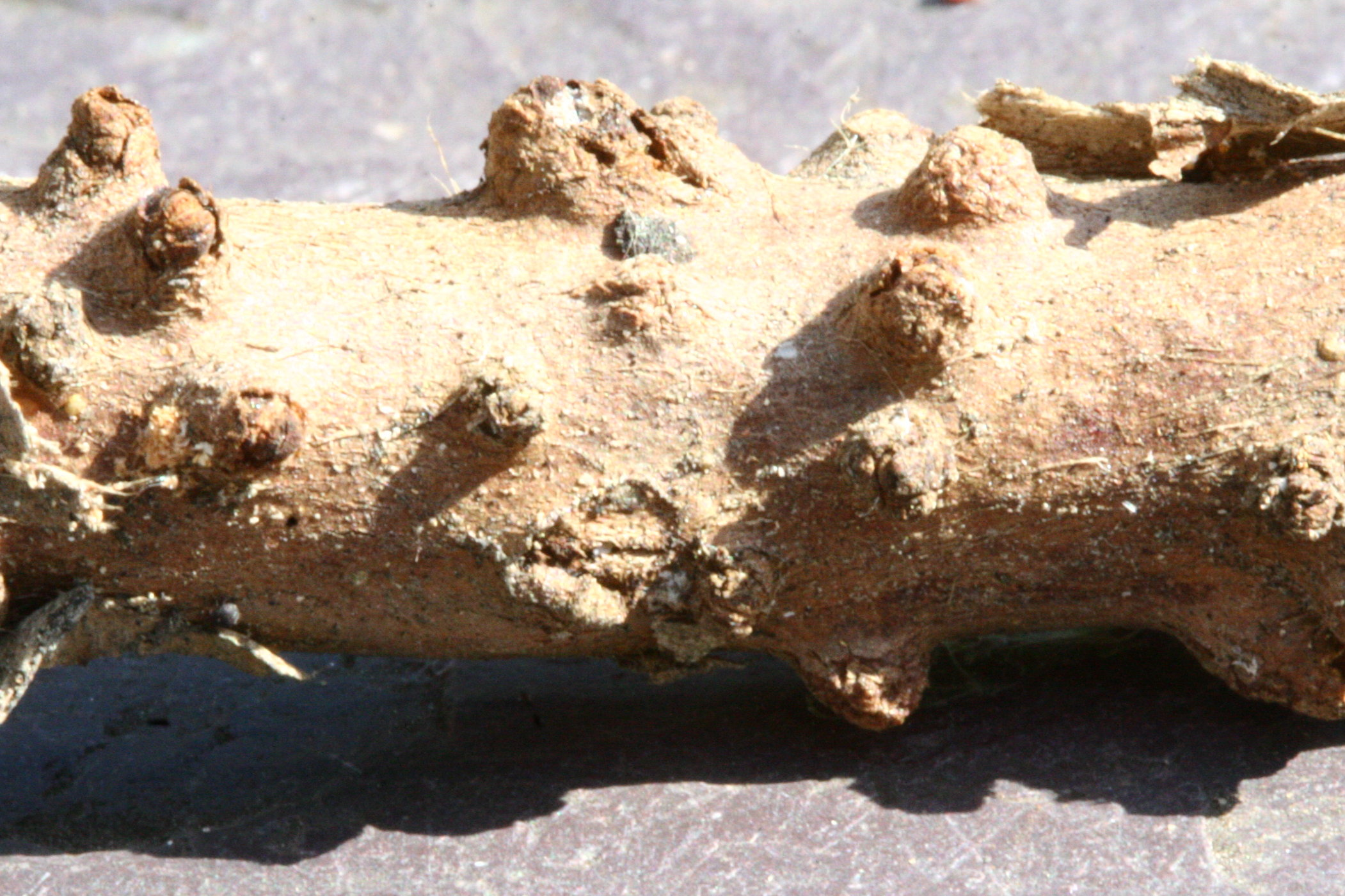 Asexual fructifications (acervular connidiomata) of Cypress canker disease on a twig of Thuja plicata. The fungus is probably Seiridium cardinale.